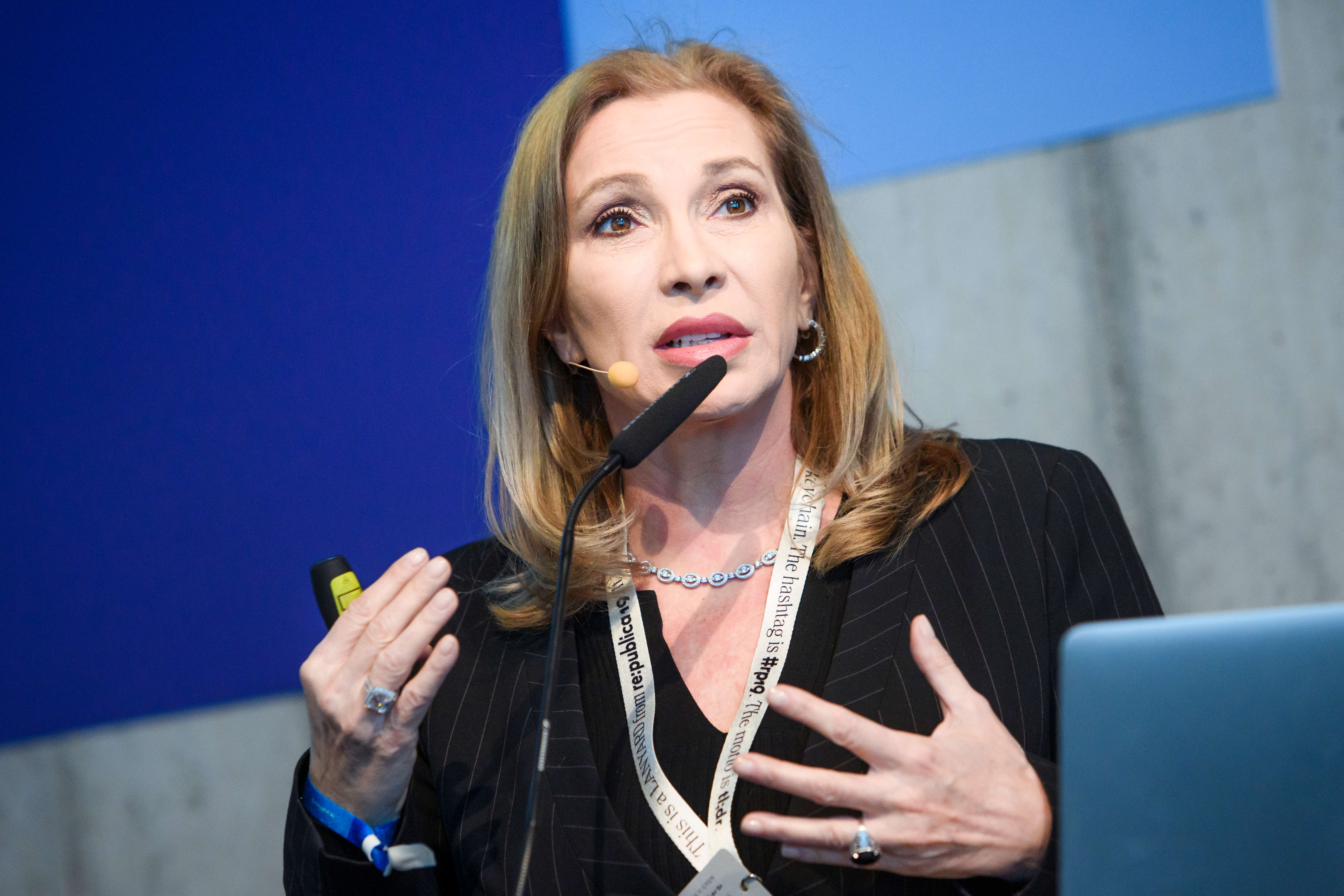 Opening Keynote Digital Hemp: Stranger than fiction: the secret art of real-life-storytelling Speaker: Cheryl Shuman